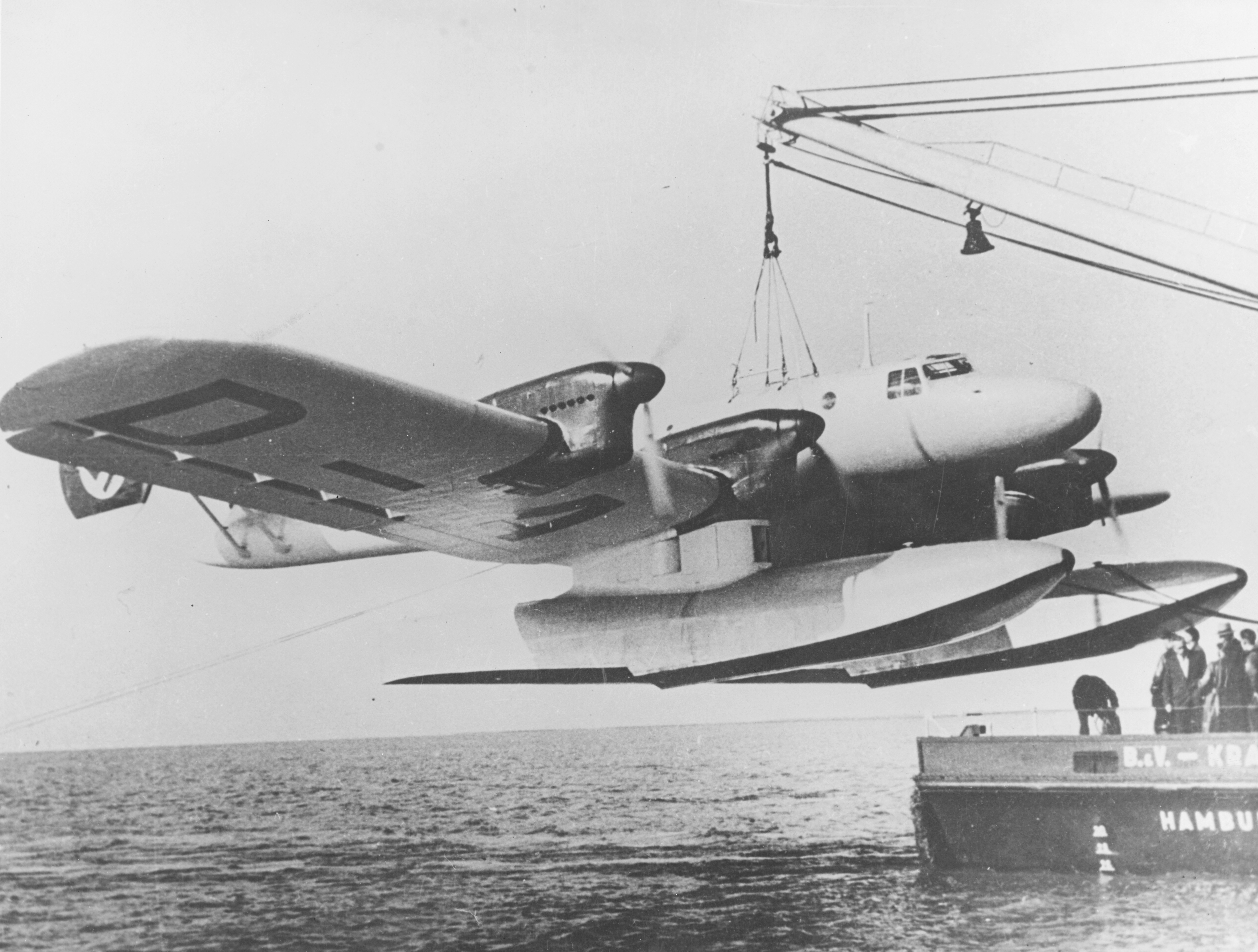 A German Blohm & Voss Ha 139 floatplane being lifted by a crane of a Blohm & Voss crane ship, registered in Hamburg, Germany.